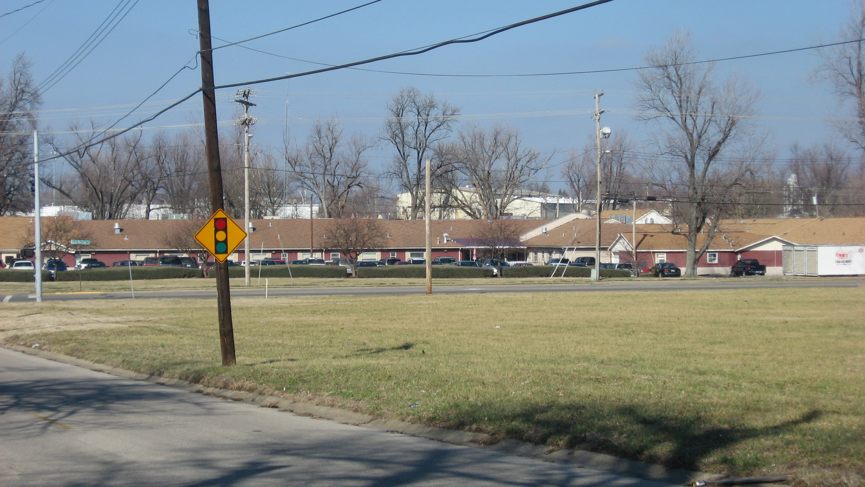 Overlooking the site of the Felix Grimes House, which was formerly located at 1301 S. Leitchfield Road at the Parrish Avenue (Kentucky Route 54) junction in Owensboro, Kentucky, United States. Listed on the National Register of Historic Places in 1975, it has been demolished, but it remains on the Register.